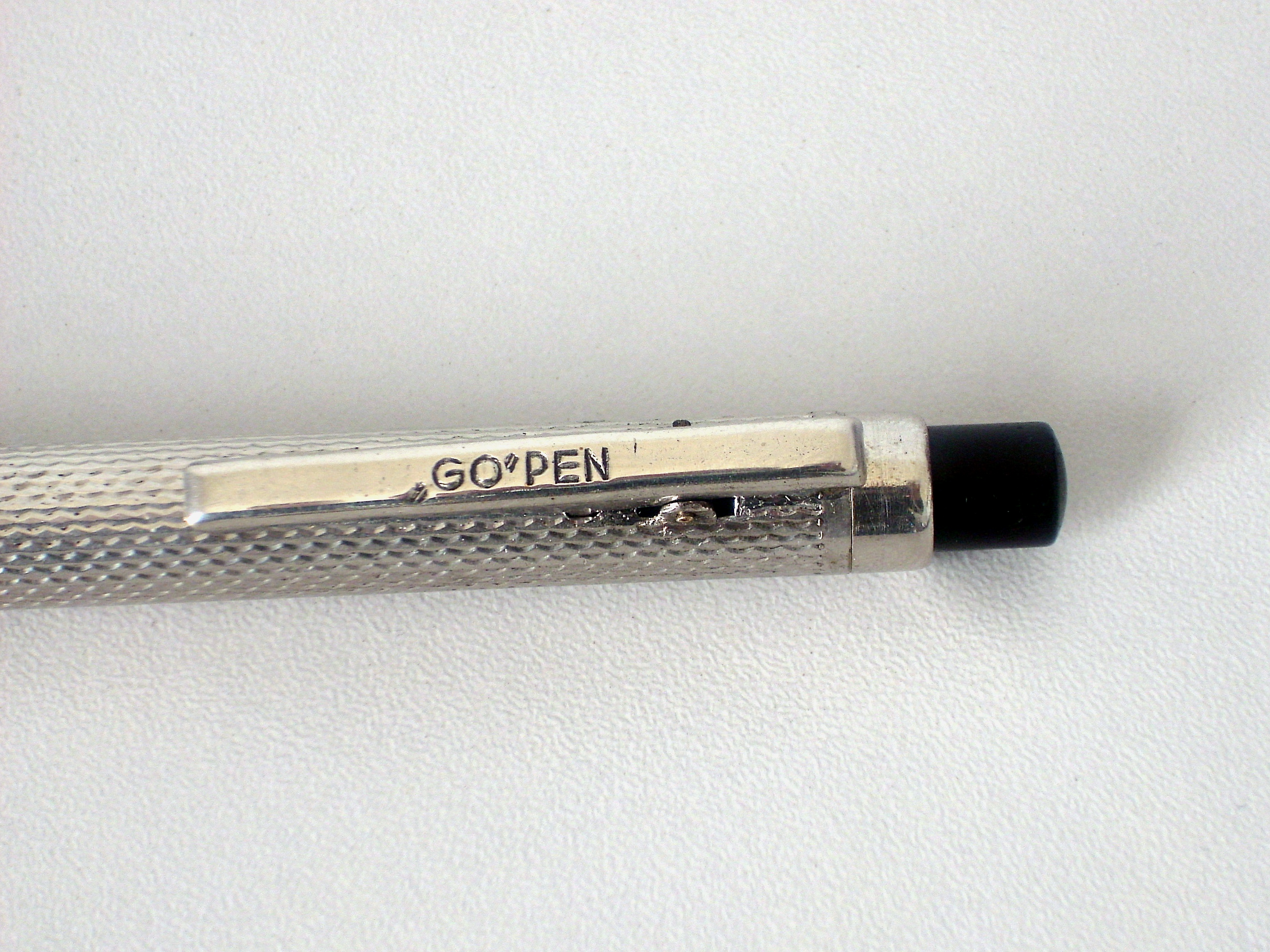 gopen_button